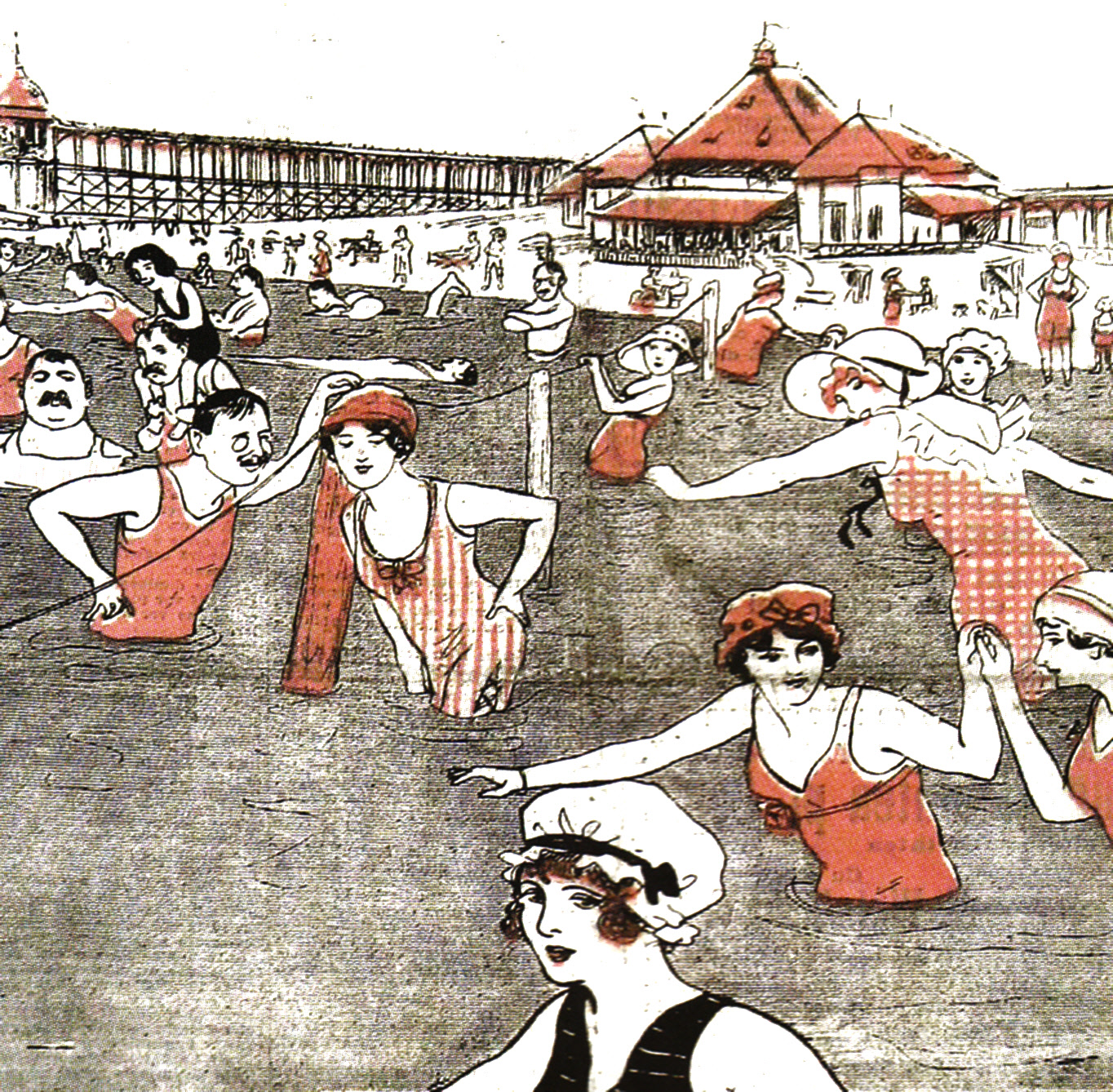 Advertising poster in Dimineaţa newspaper, promoting tourism on the Romanian littoral. The original text reads: Băi de mare la Mamaia, unde cele două sexe se pot admira reciproc! ("Sea bathing in Mamaia, where the two sexes can admire each other!").